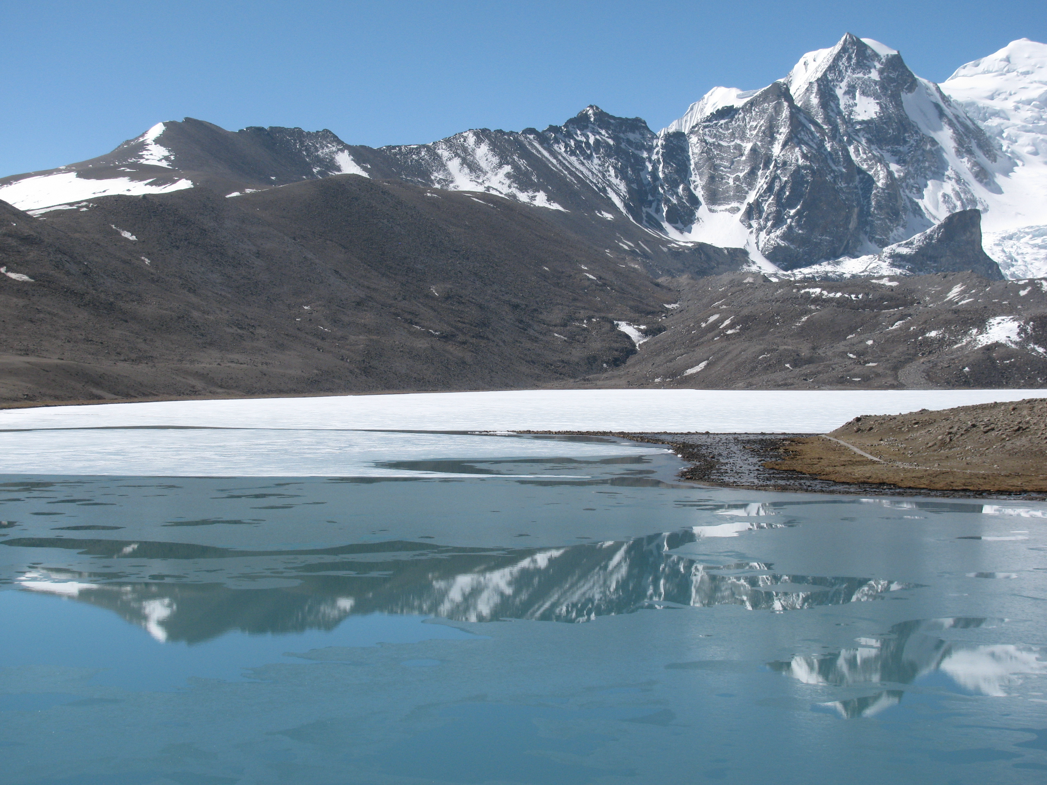 Gurudongmar Lake in May 2012, North Sikkim